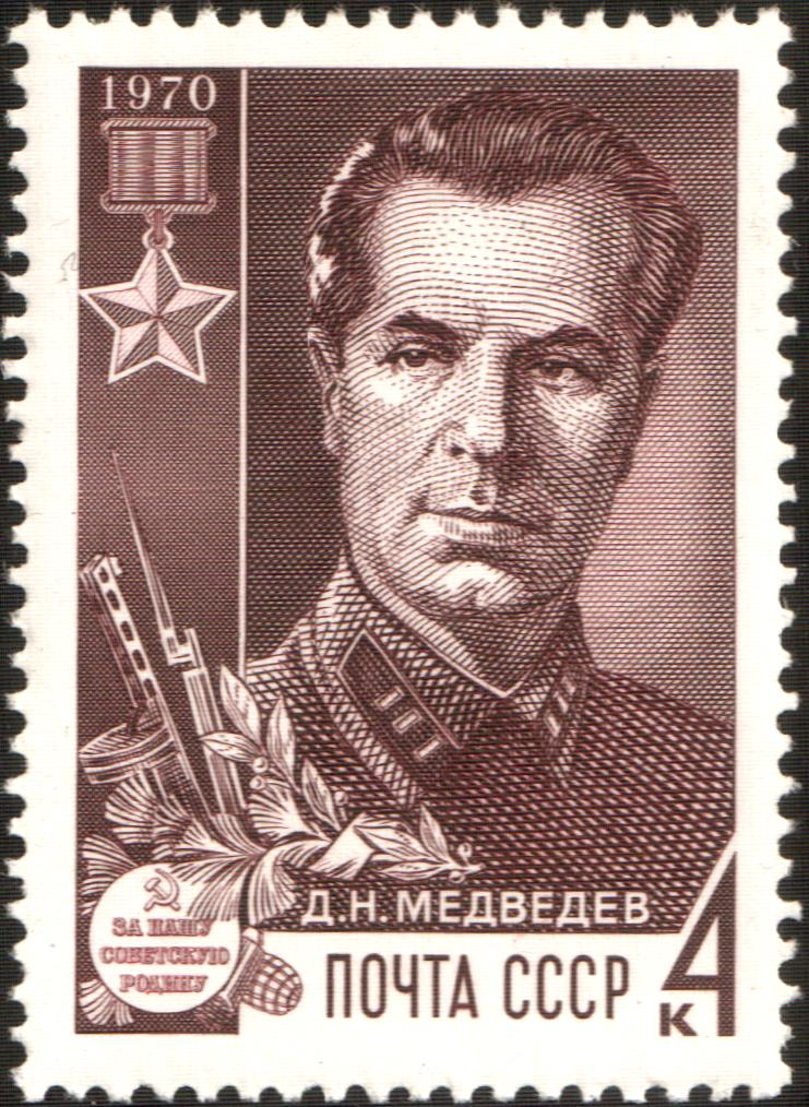 USSR stamp: USSR Partisan World War II Hero Dmitry Nikolayevich Medvedev. Series: Partisans of World War II